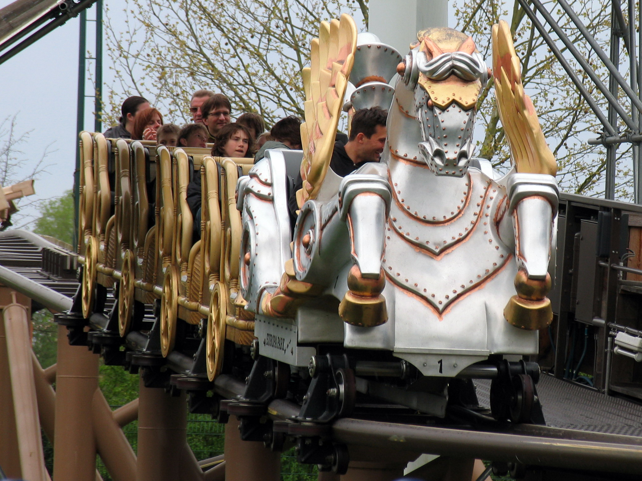 Roller coaster Pegasus at Europa-Park, Rust, Germany